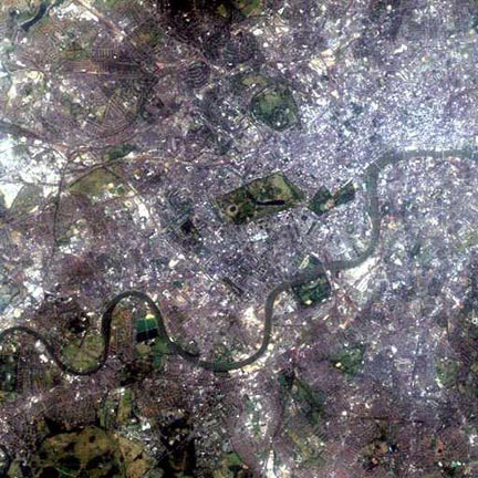 A simulated-colour satellite image of west London taken on NASA's Landsat 7 satellite.